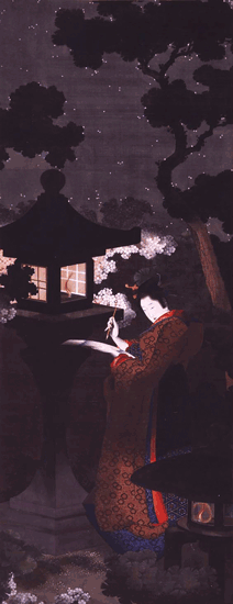 A woodblock by Katsushika Oi, Katsushika Hokisai's youngest daughter